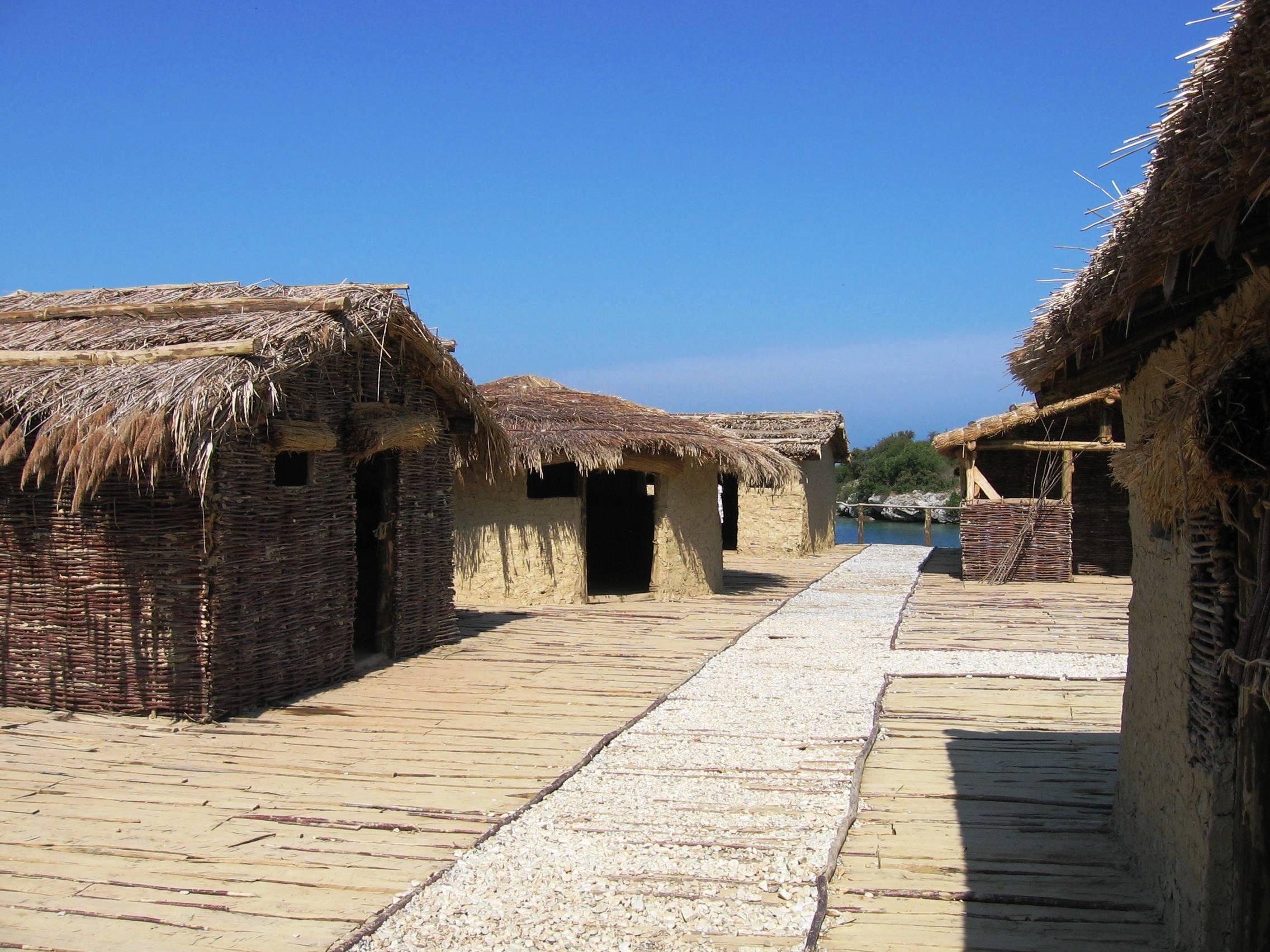 Water Museum - Bay of Bones on Ohrid lake